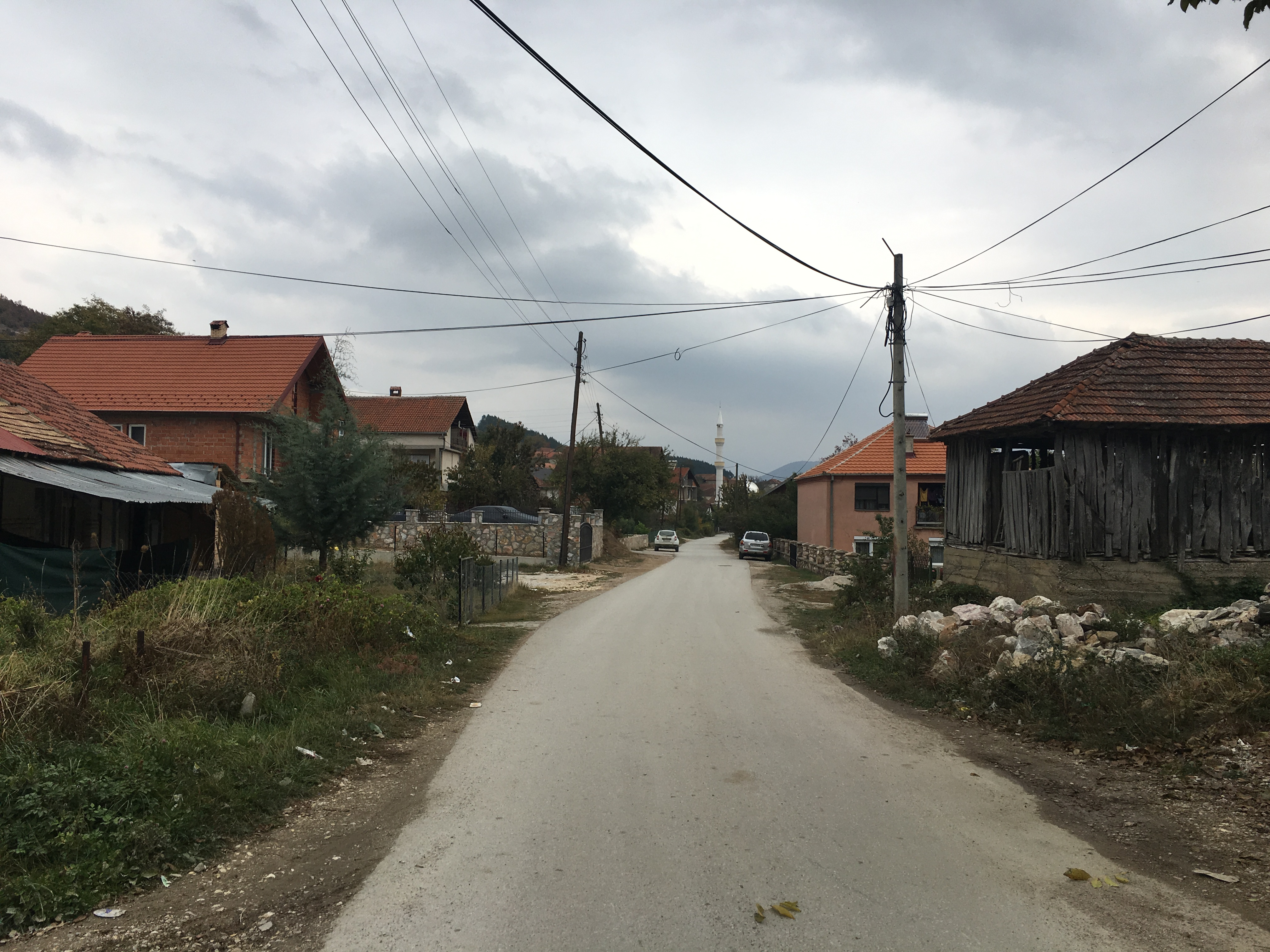 Wikiexpedition to Kopačka